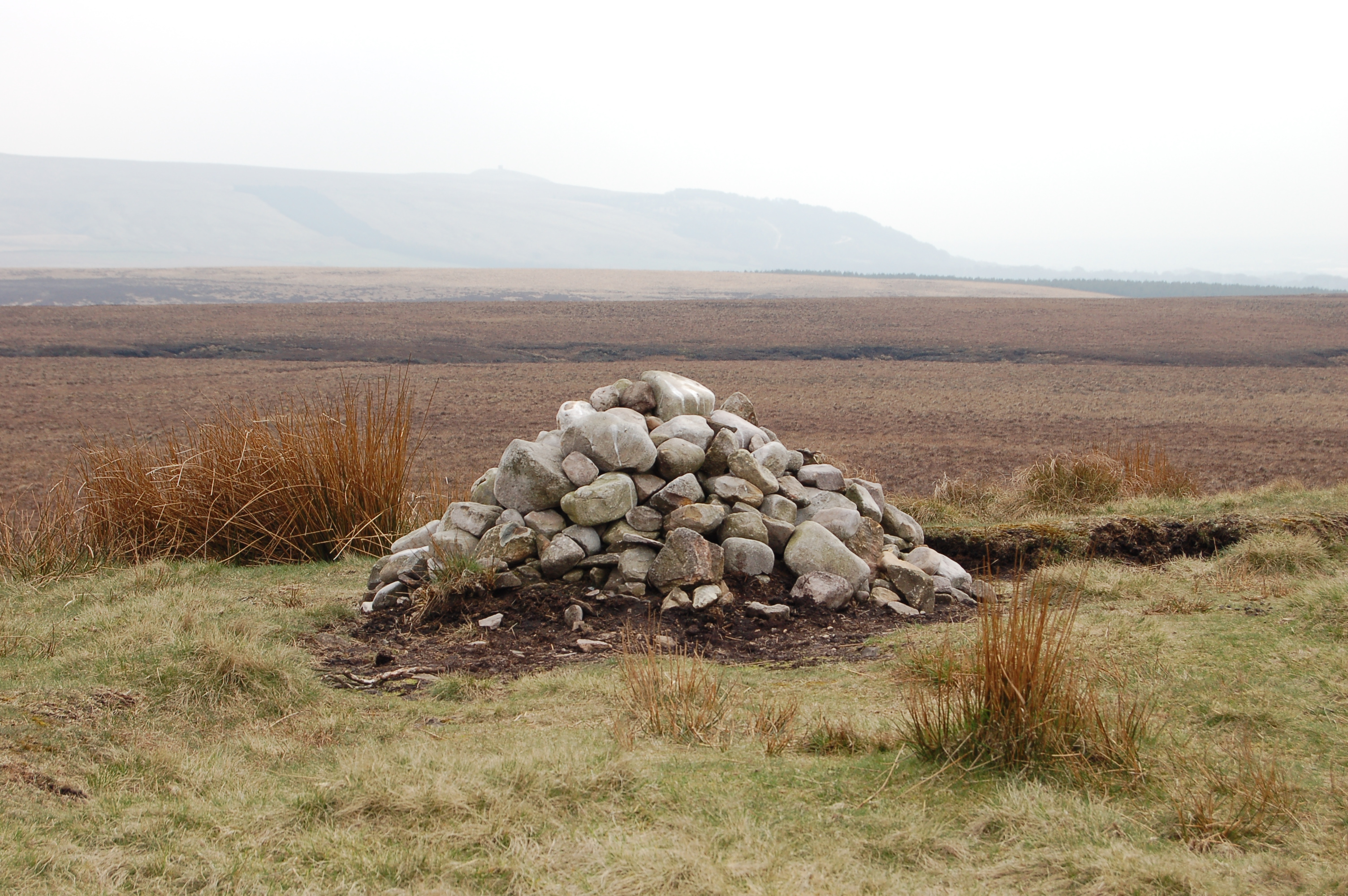 Taken by me, released for any use